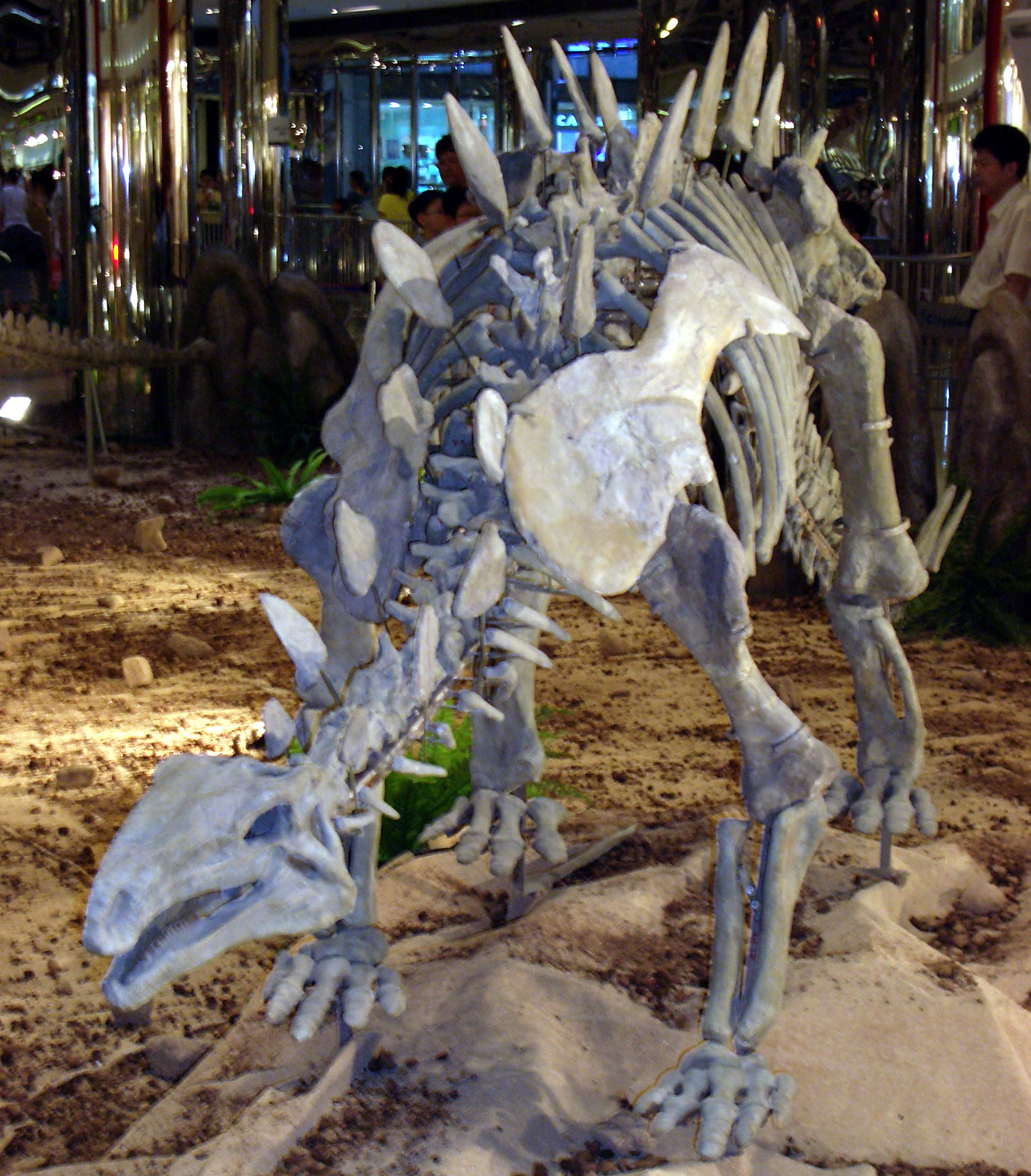 photo of Huayangosaurus taibaii